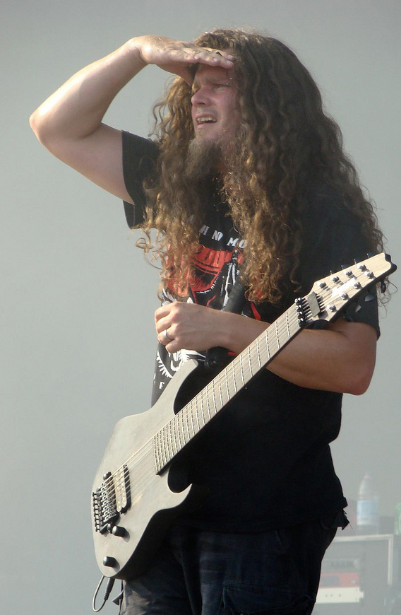 Guitarist Mårten Hagström from the Swedish band Meshuggah performing on a live show with Meshuggah in Bolzano, Italy - June 29, 2008.